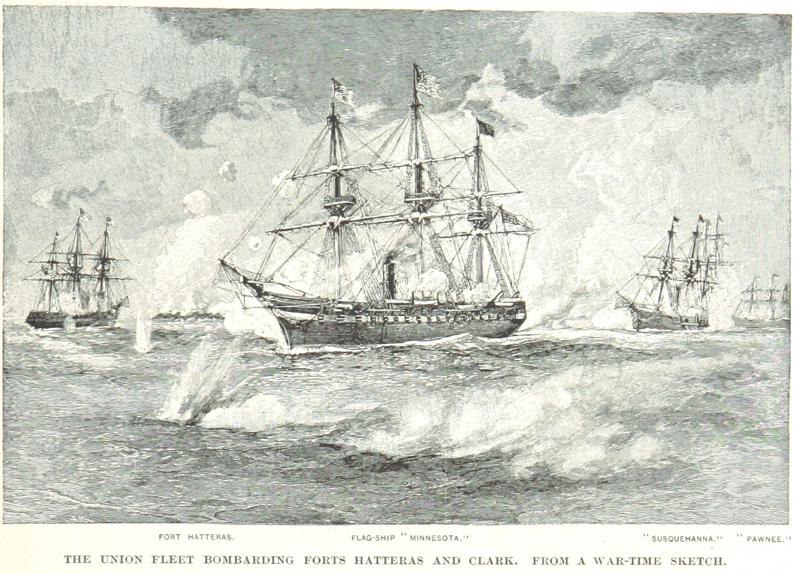 Battle of Hatteras Inlet Batteries:USS Minnesota, USS Susquehanna, USS Pawnee bombard Fort Hatteras